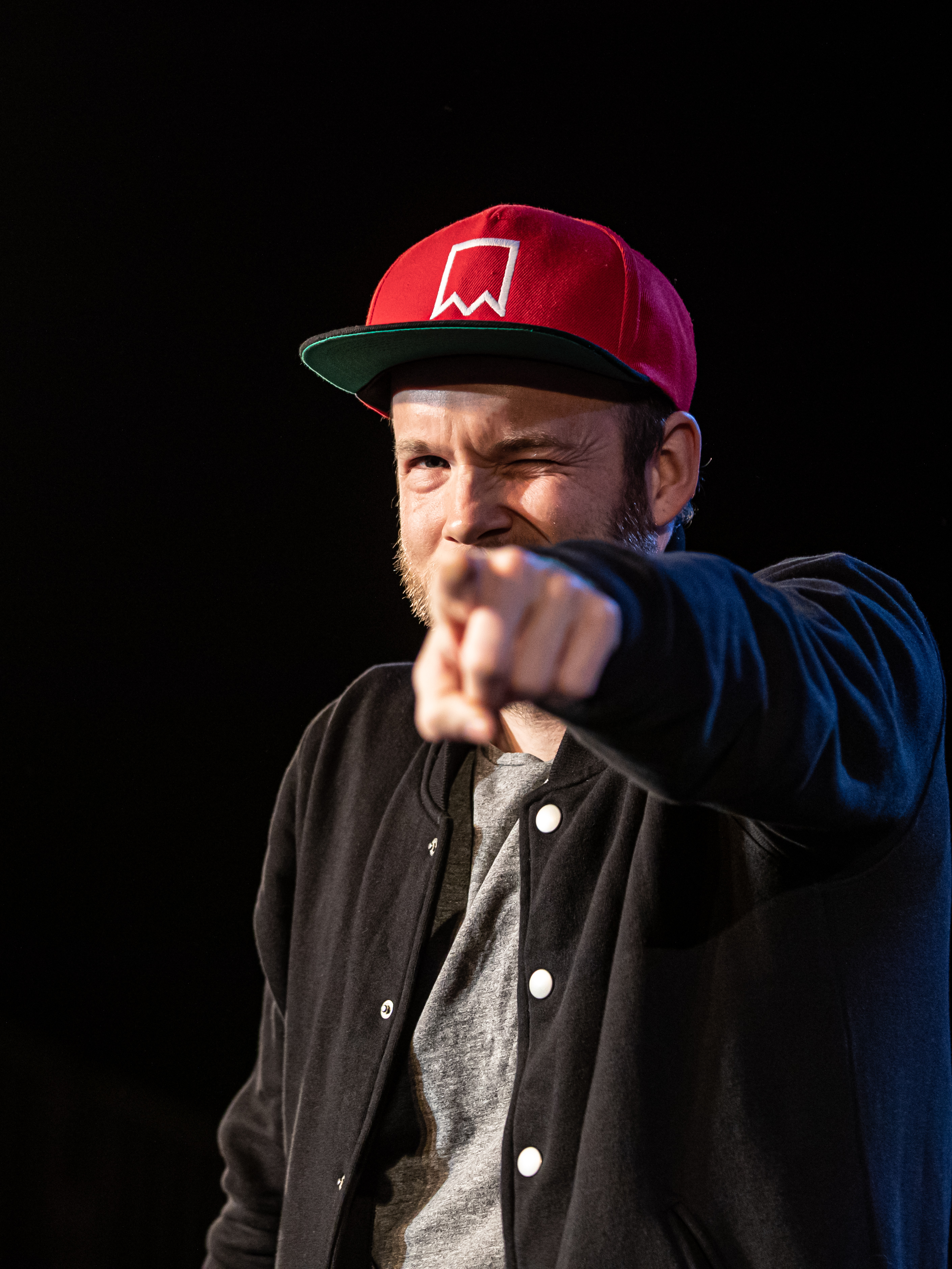 Rapper and slam poet Quichotte at the Kulturbörse Freiburg 2019